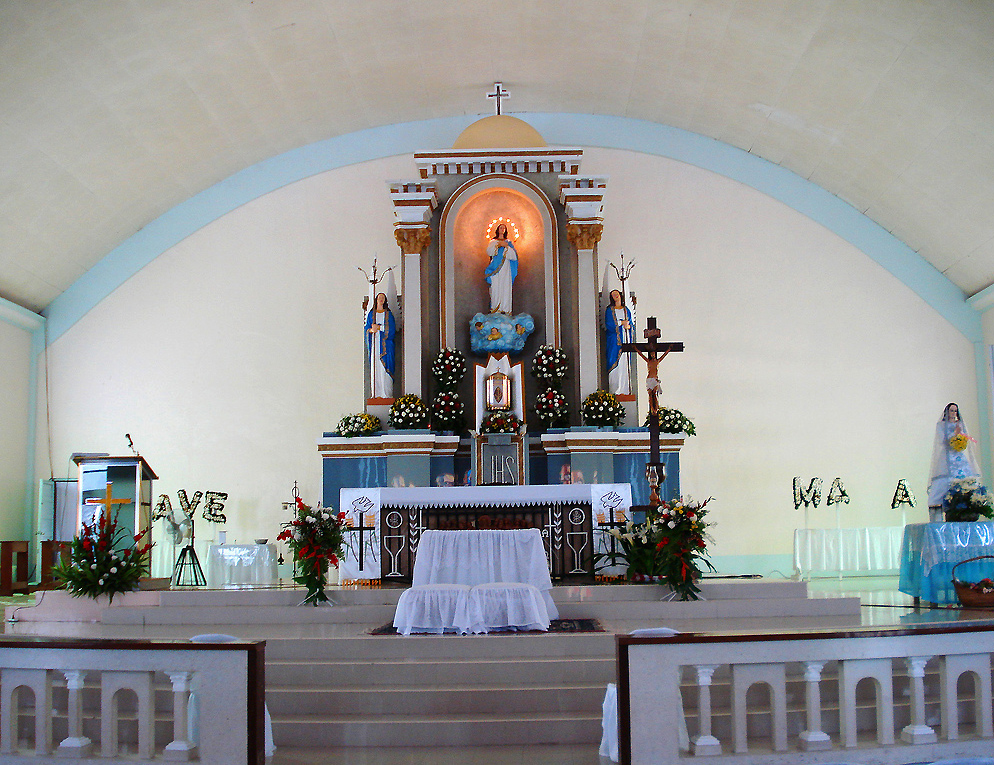 The main altar of the church.